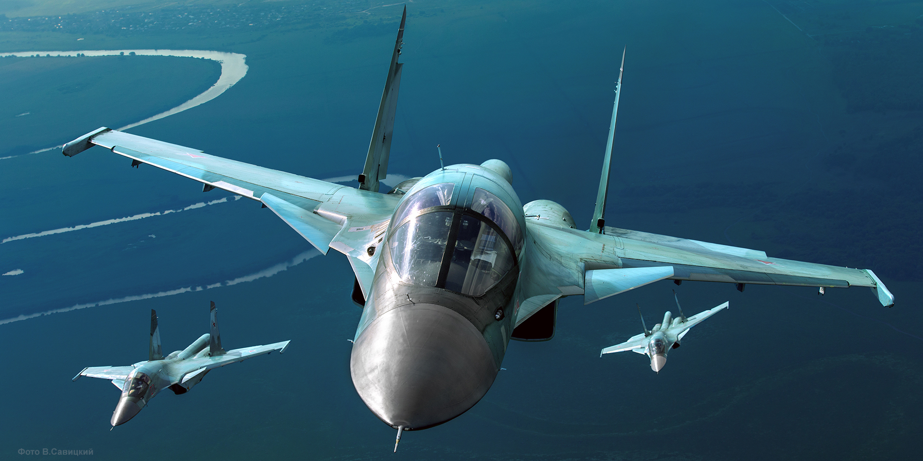 Air-to-air with Russian Air Force Sukhoi Su-34